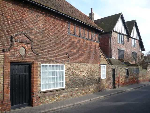 Strand Street, King's Lodging